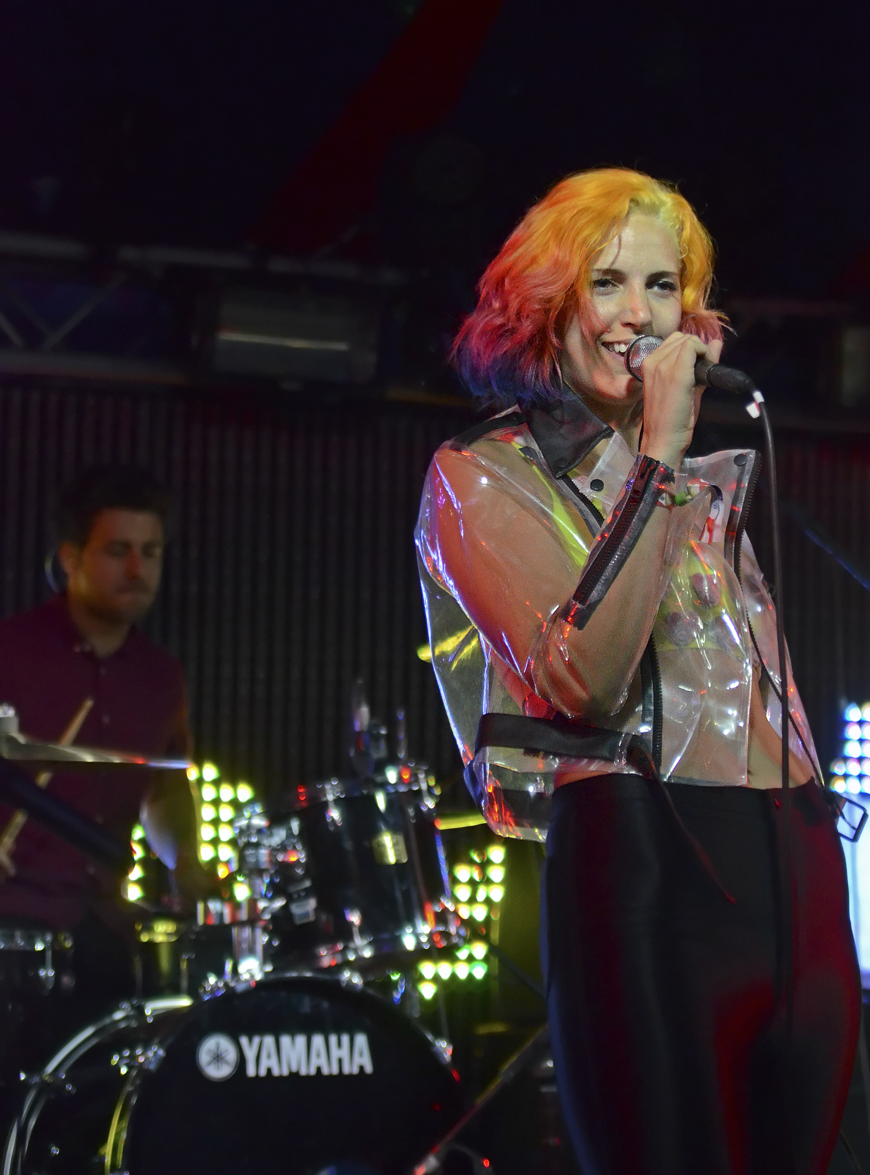 MS MR at Glastonbury Festival 2013